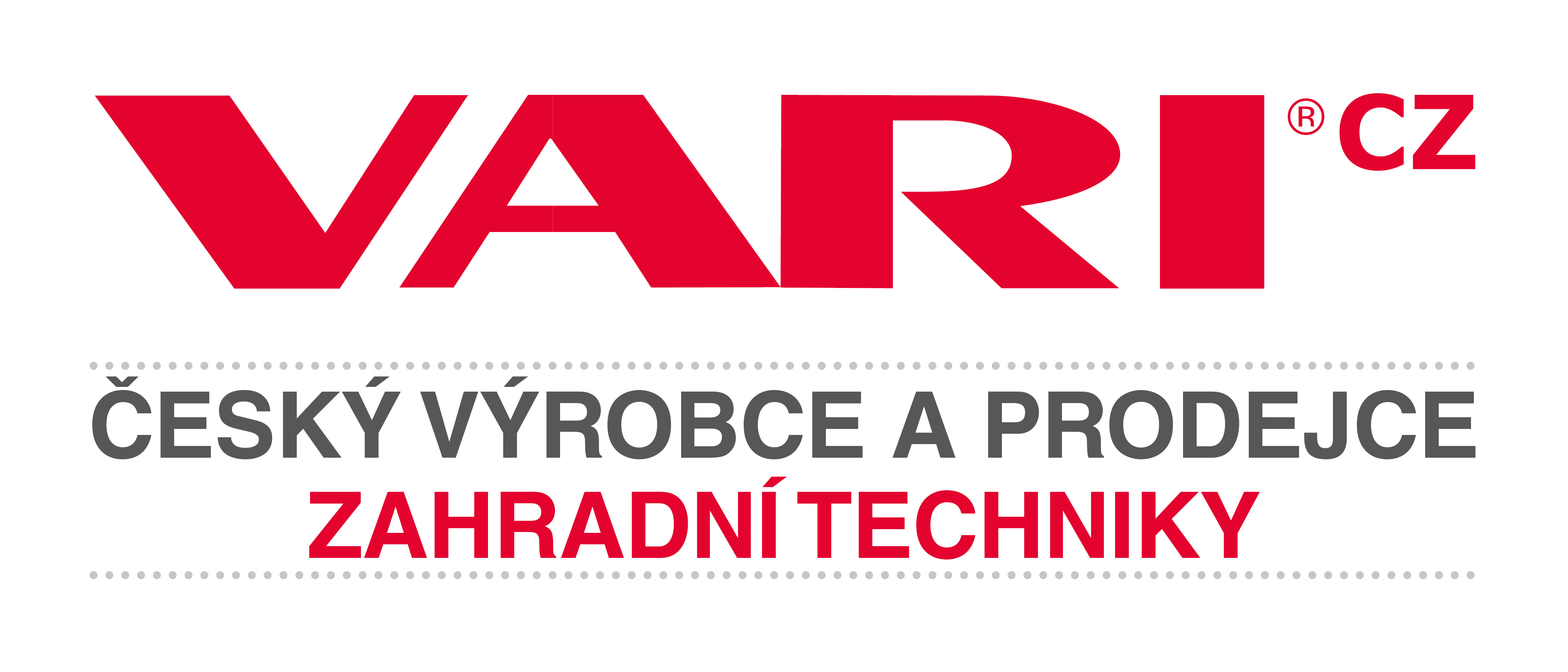 Logo VARI